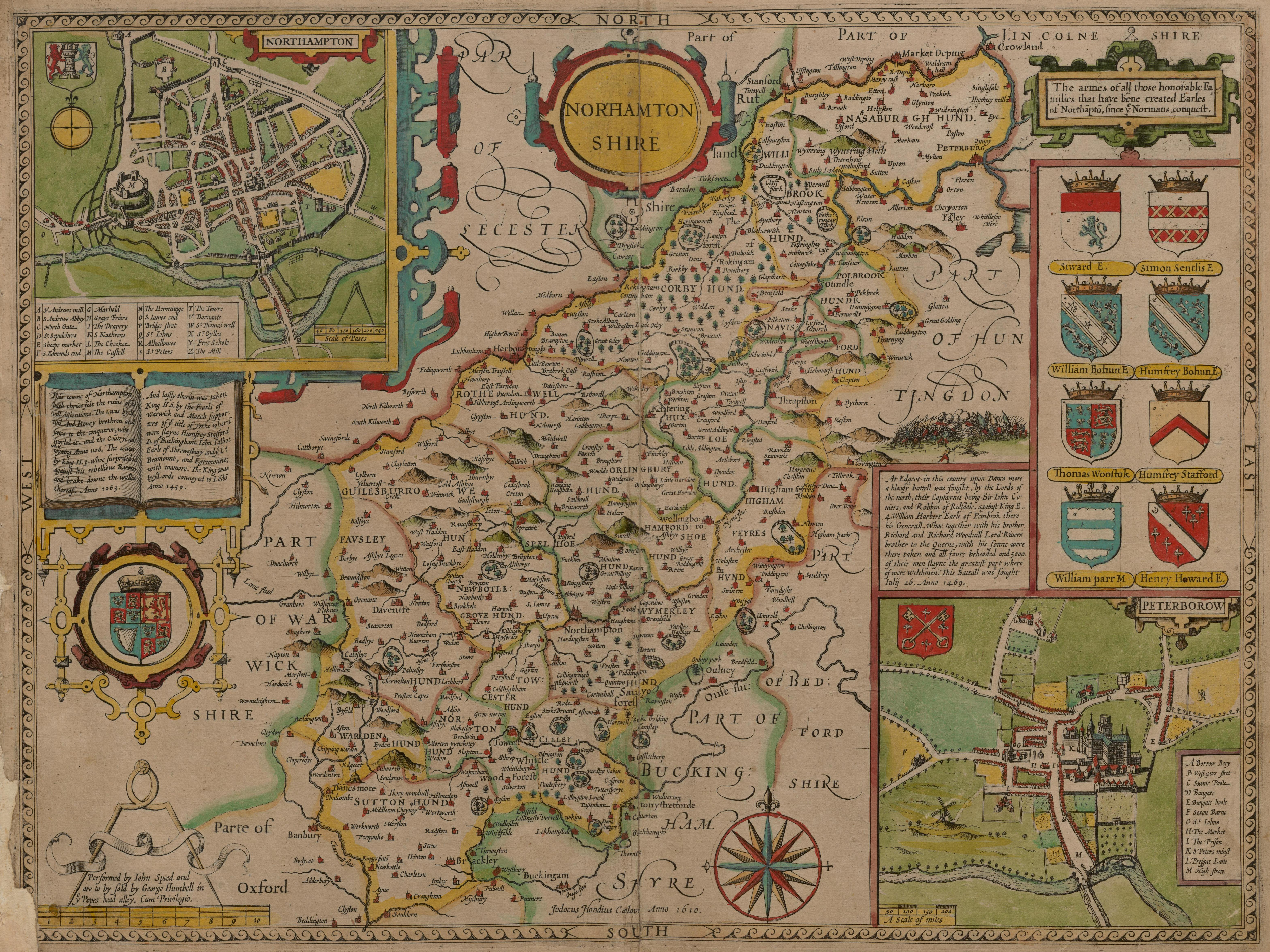 Map of Northamptonshire, with a inset depiction of the county town of Northampton as well as the city of Peterborough, from John Speed's circa 1611 date QS:P,+1611-00-00T00:00:00Z/9,P1480,Q5727902 Theatre of the Empire of Great Britaine